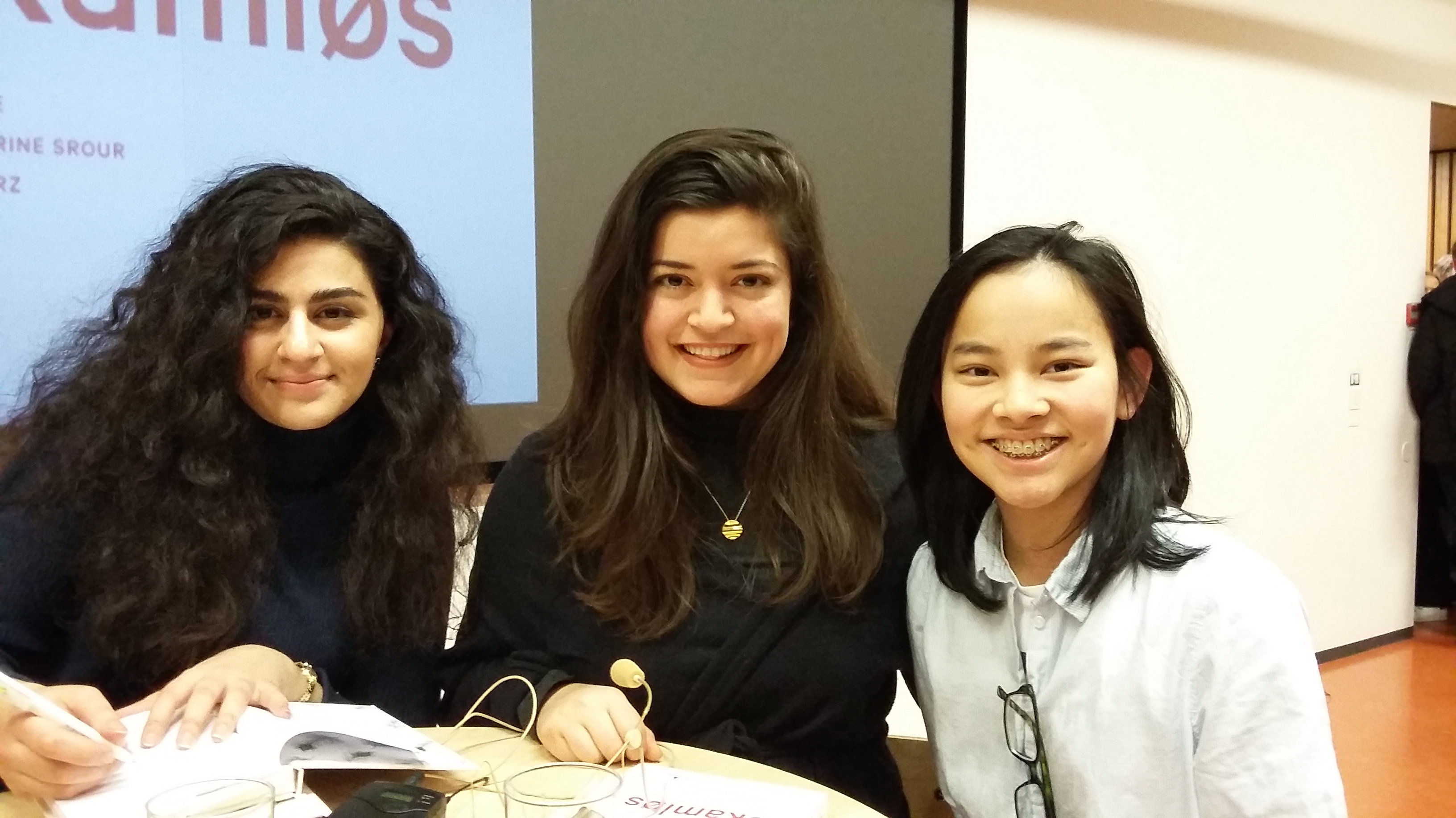 The authors Sofia Srour and Nancy Herz visiting a school to talk about their book.